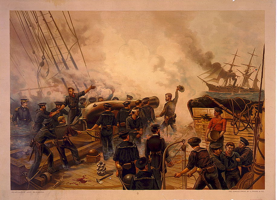 Battle of the USS Kearsarge and the CSS Alabama, color lithograph by Louis Prang & Company